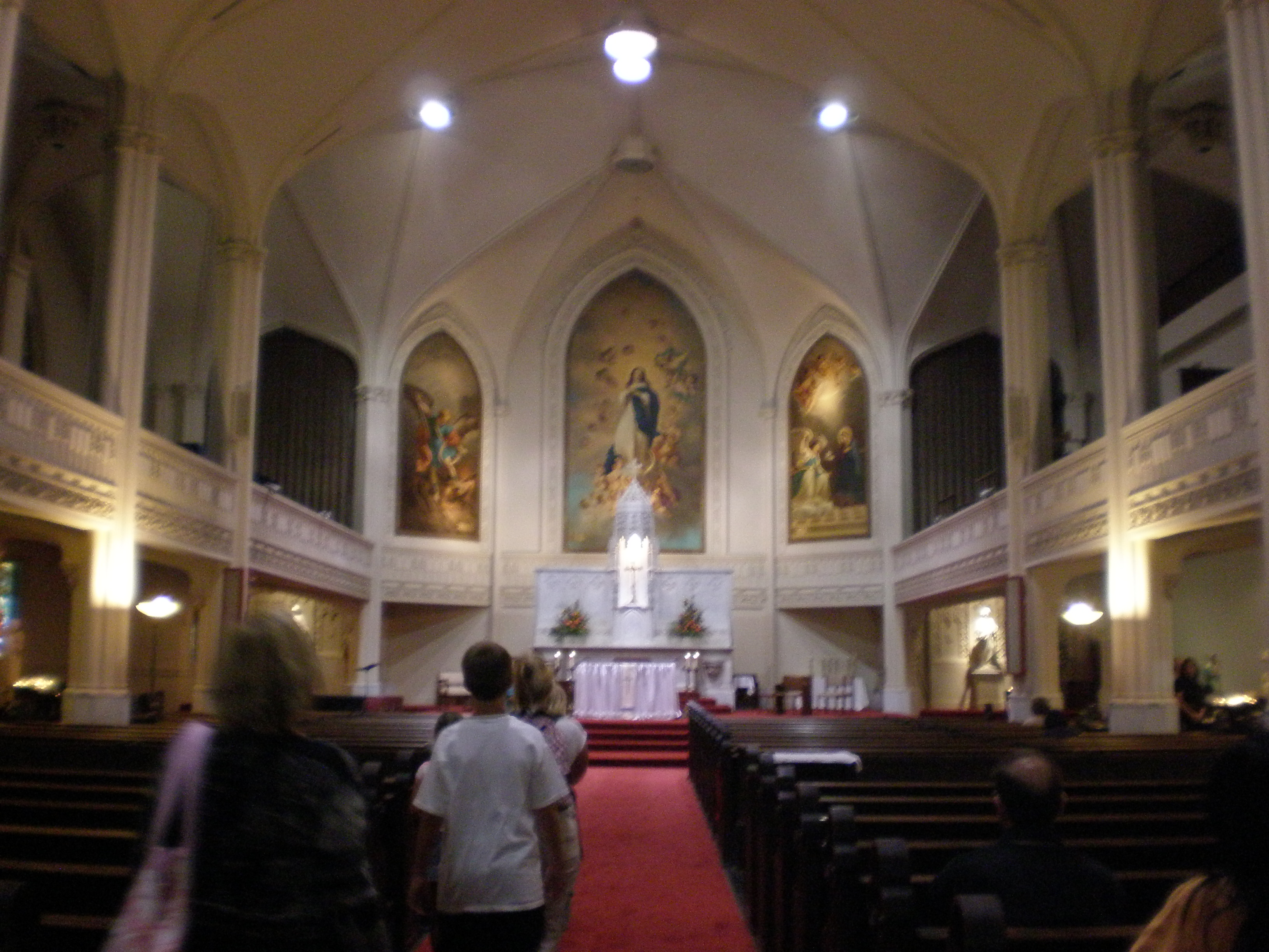 The interior of Old St. Mary's Cathedral in San Francisco.